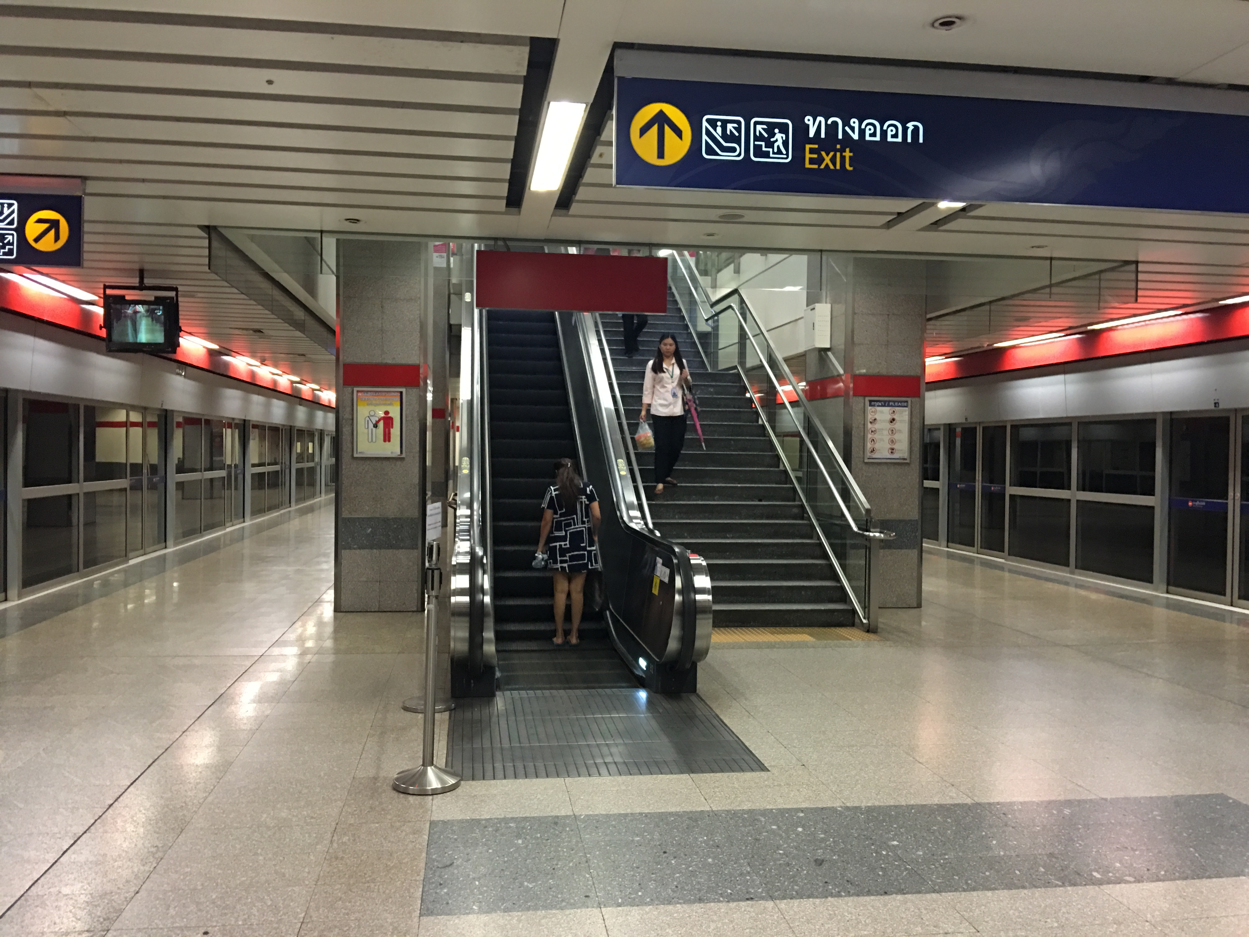 The platform level of Sutthisan Station